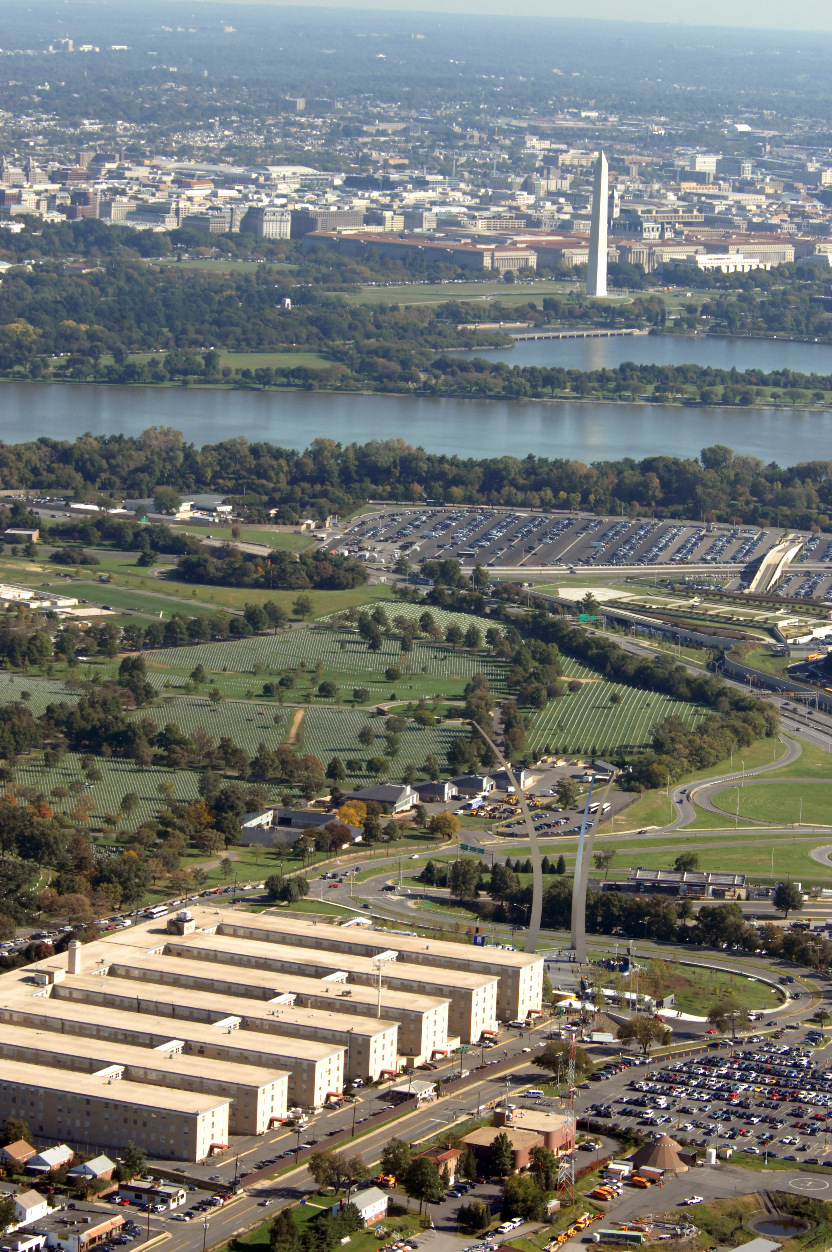 ARLINGTON, Va. (Oct. 13, 2006) - View over the U.S. Navy Annex, showing the completed U.S. Air Force memorial scheduled for dedication on Saturday, October 14, 200. U.S. Air Force photo by Master Sgt. Gary R Coppage (Released)